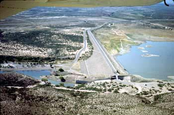 Caballo Dam on the Rio Grande, by U.S. Bureau of Reclamation